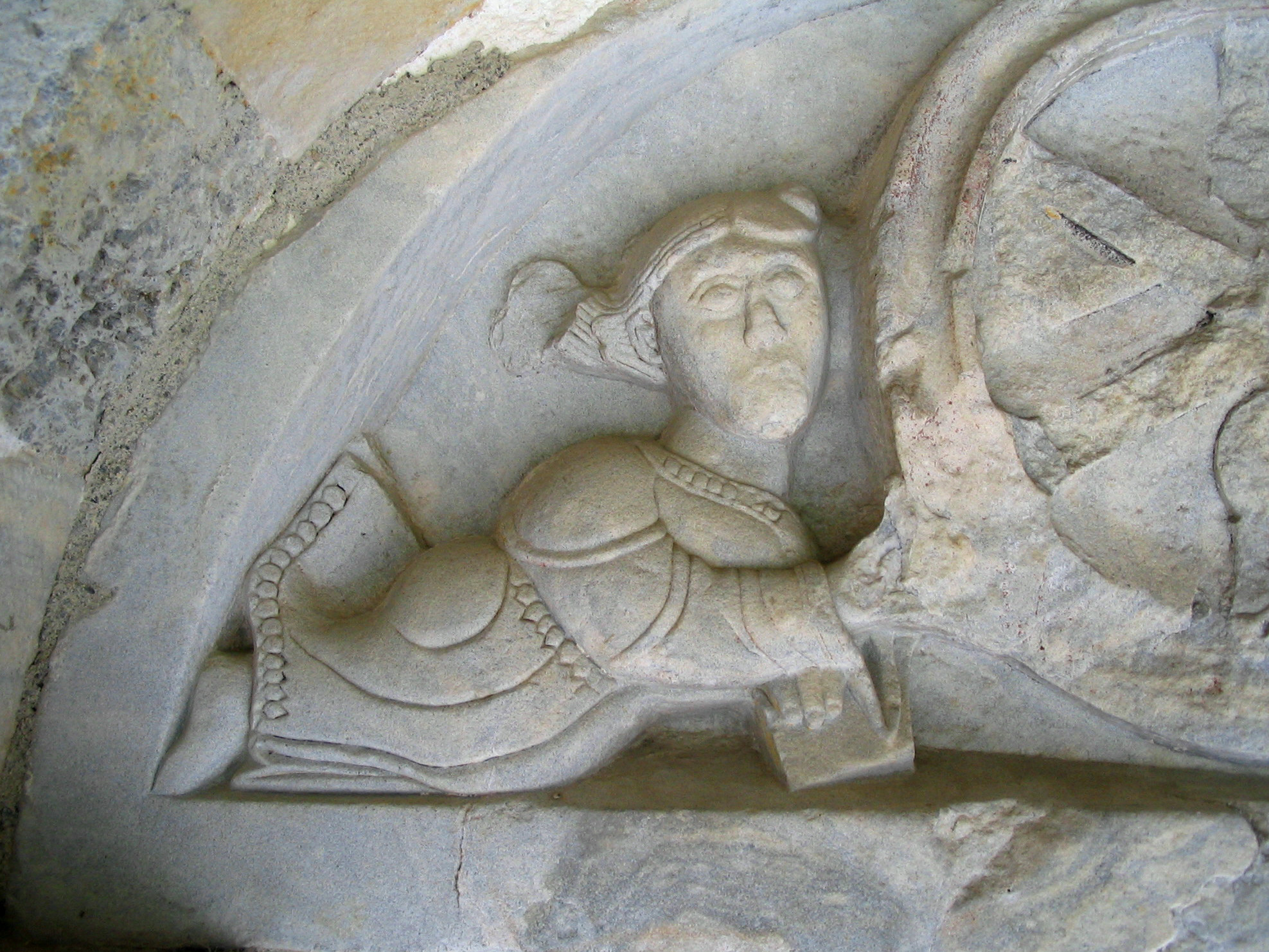 Porche de l'église d'Assouste - Pyrénées Atlantique - France Porch of the church of Assouste in the French Pyreneas. Auteur/author: P.Charpiat - 2006